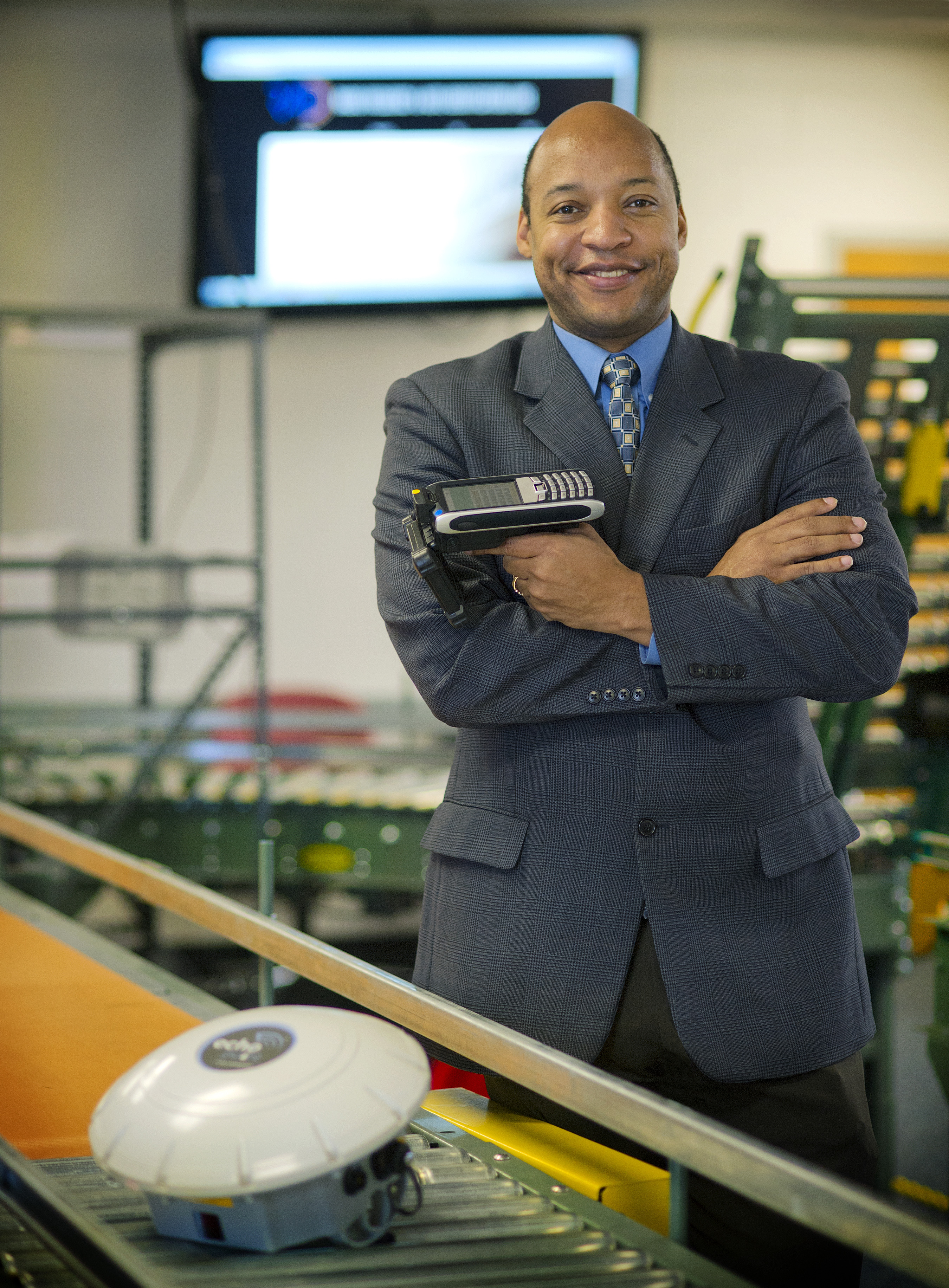 Dr. Erik Jones